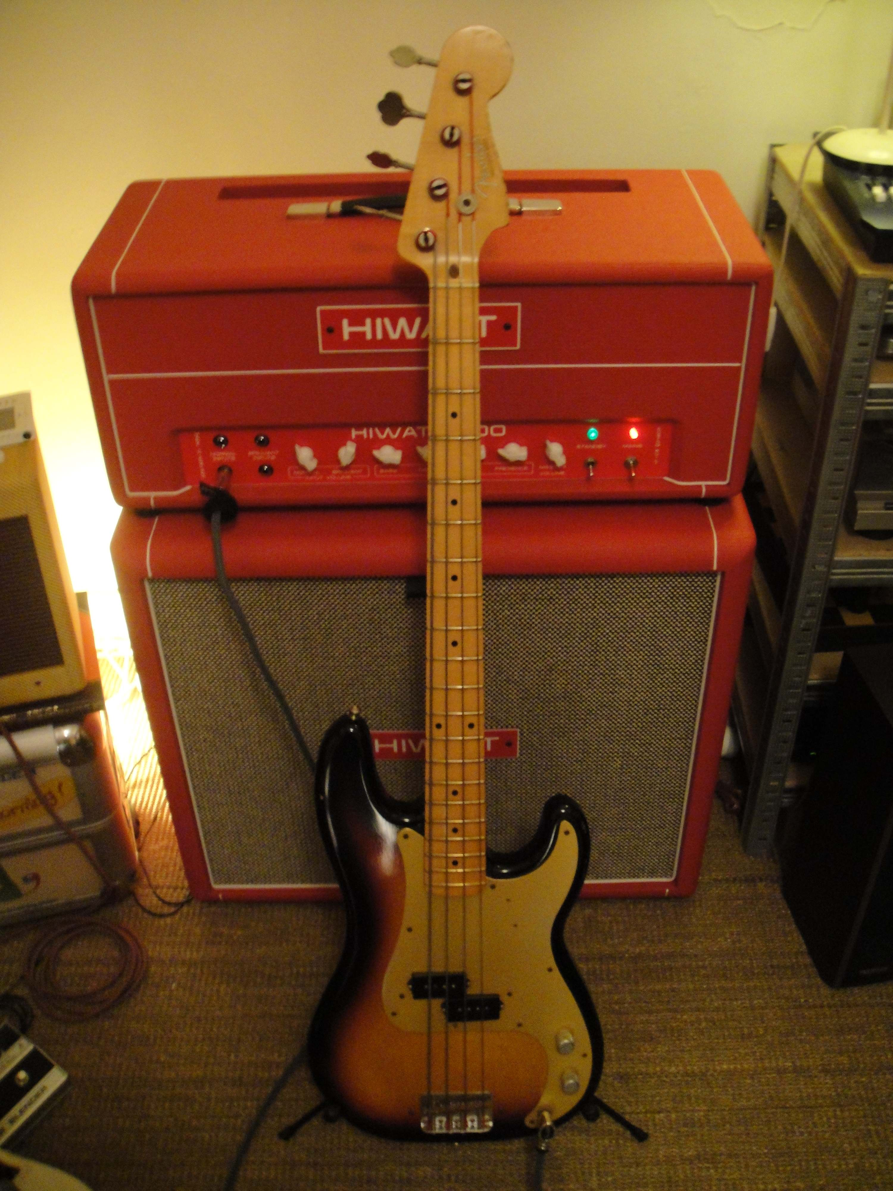 A 2005-reissue of a Fender Precision Bass 1958.